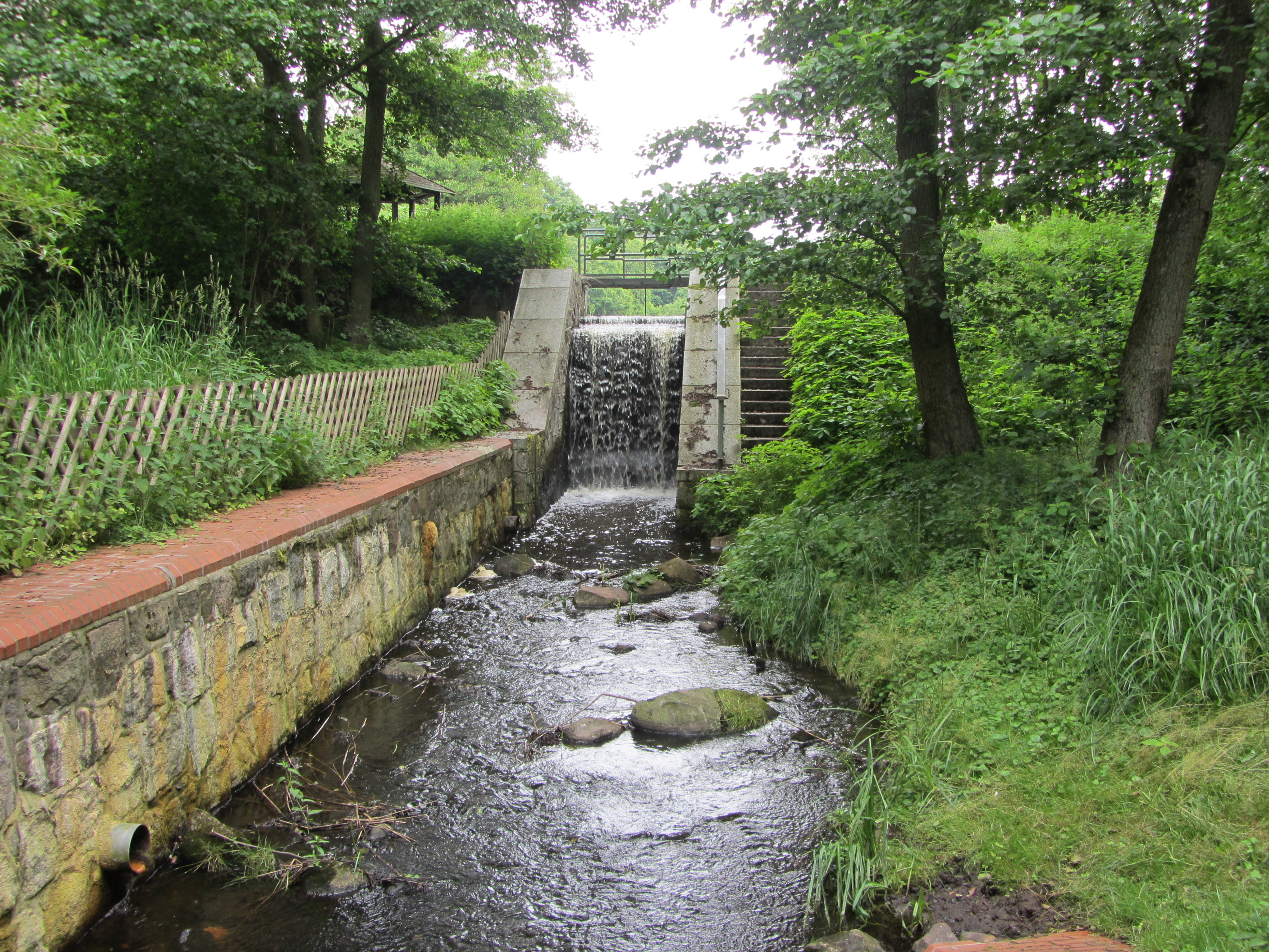 Former watermill Markower Mühle, river: Wocker, in the north of Parchim, district Ludwigslust-Parchim, Mecklenburg-Vorpommern, Germany